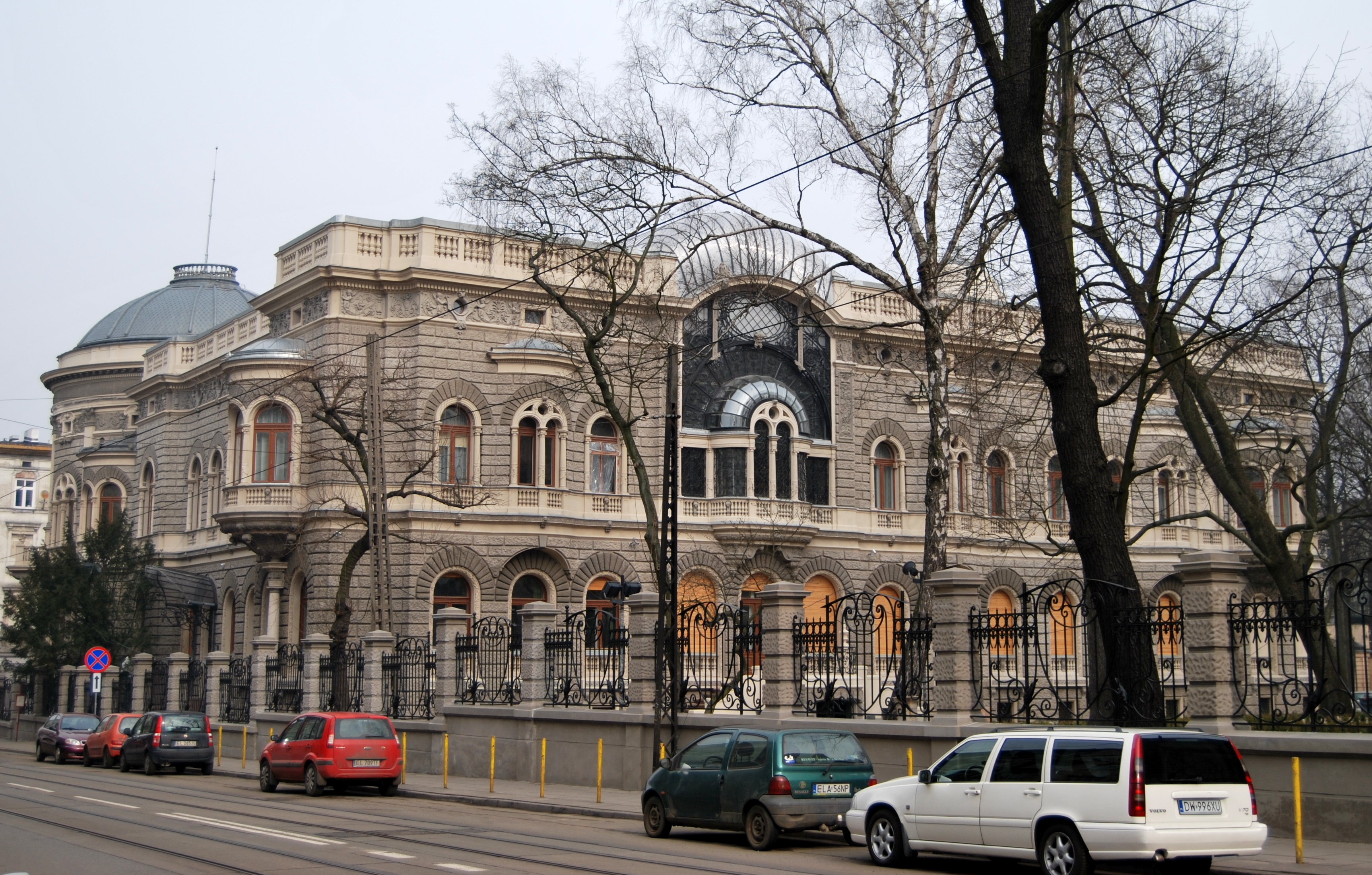 View from Maurycy Poznański palace